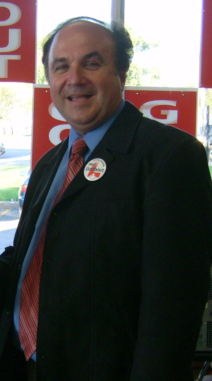 Cropped picture of Marc Godbout in September 2008 during the Canadian federal elections